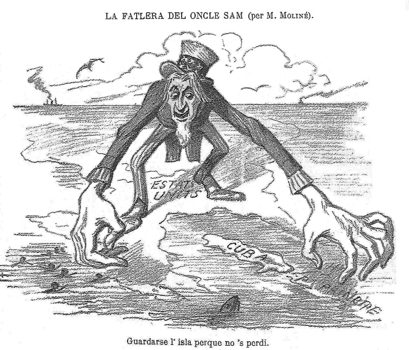 Satyric drawing from the Catalan newspaper "La Campana de Gràcia" in 1896 satirizing USA's intentions about Cuba. Upper text reads (in old Catalan): "Uncle Sam's craving (by M. Moliné).". Text below reads: "Saving the island so it won't get lost.".